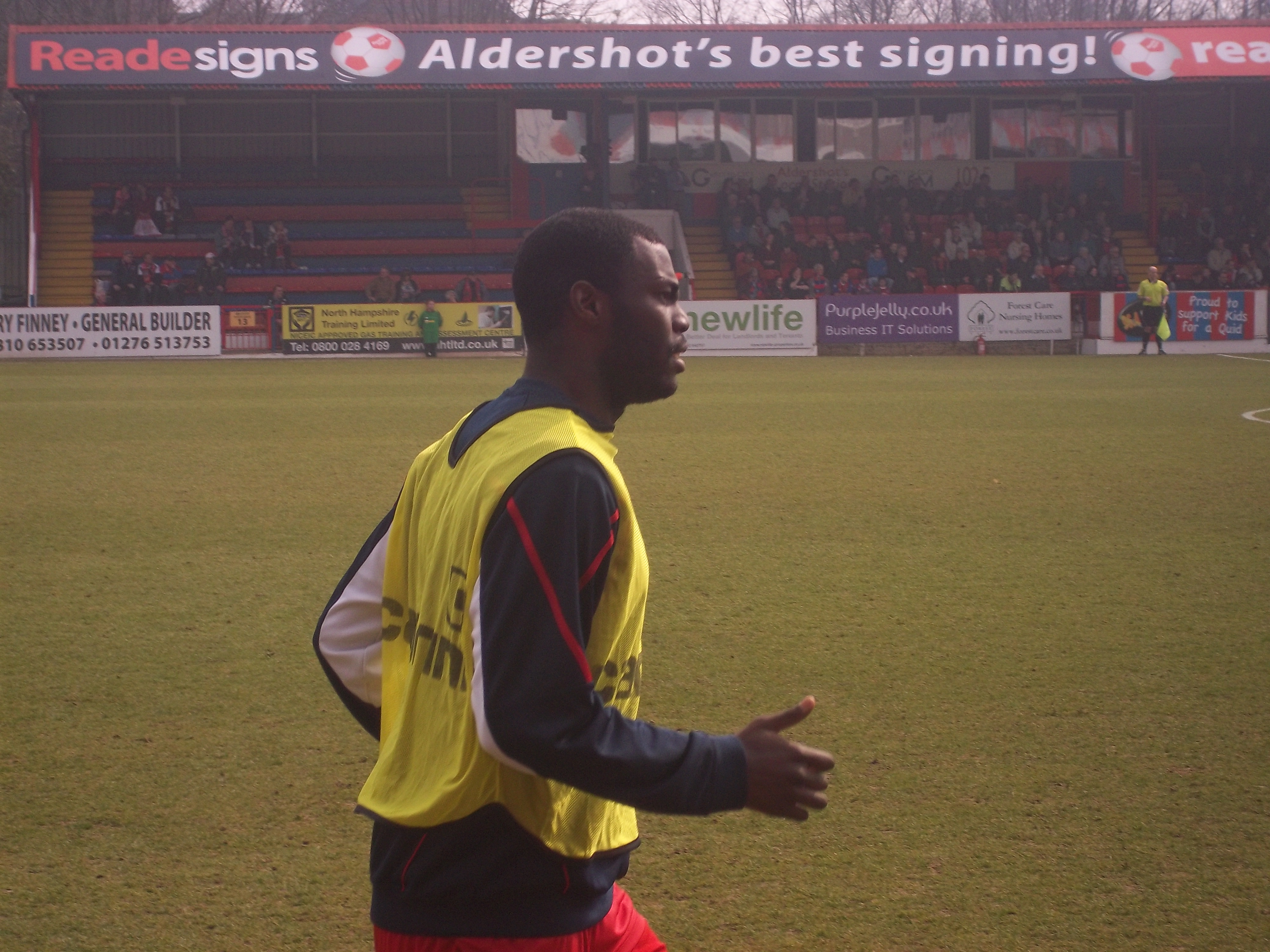 Clayton Fortune playing for Aldershot